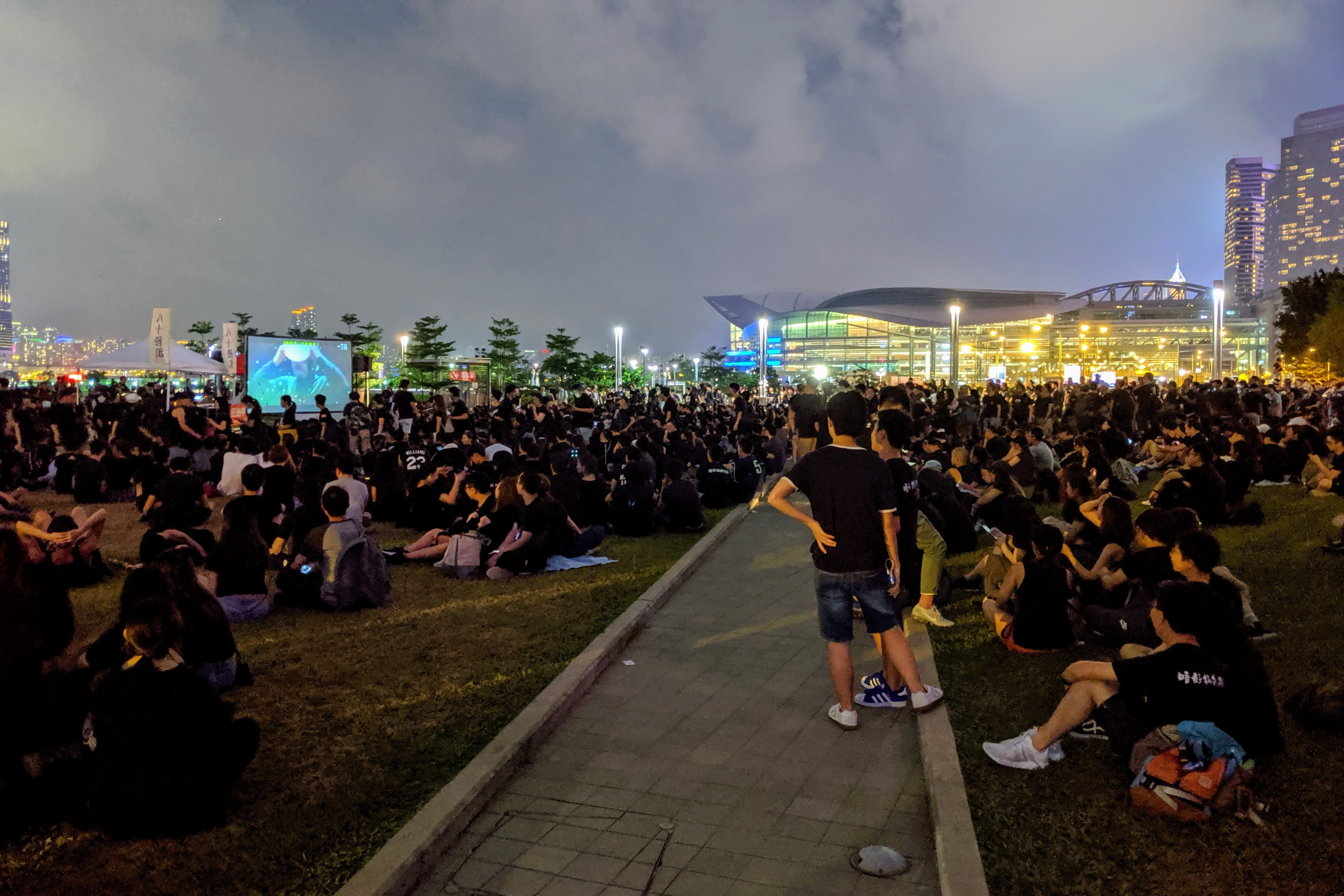 2019 Hong Kong anti-extradition bill protest